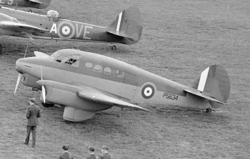 Aircraft of the Royal Air Force 1939-1945- Percival Q.6 Petrel. Q.6 “Petrel”, P5634, of the RAF Northolt Station Flight, parked alongside Bristol Blenheims at Wyton, Huntingdonshire.